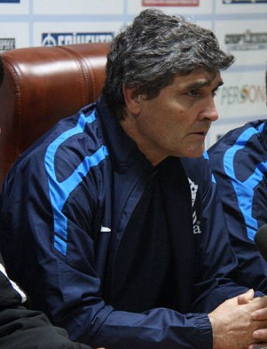 Juande Ramos in FC Dnipro Dnipropetrovsk